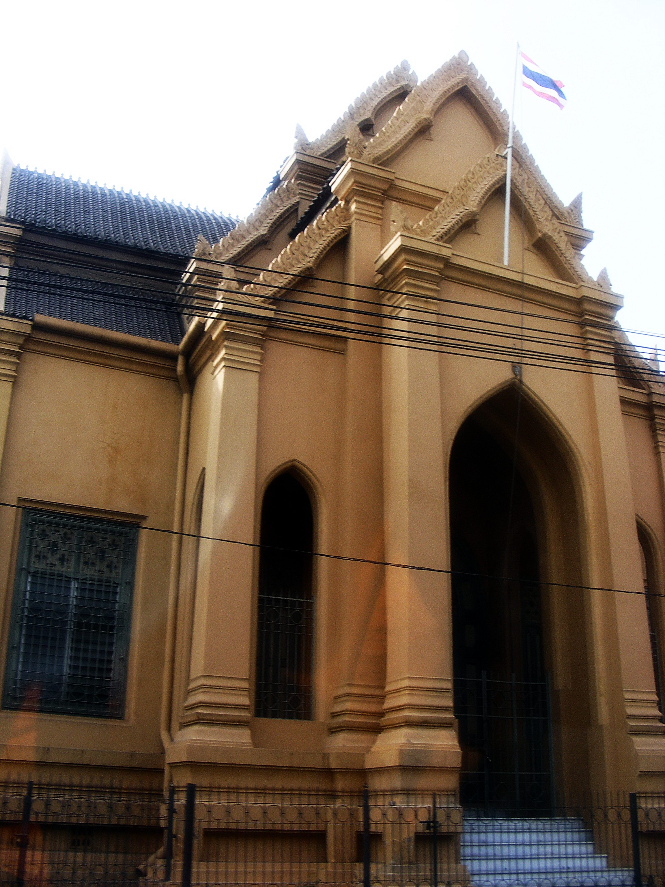 Wat Mahathat Yuwaratrangsarit of Thailand Location: Bangkok, Thailand.